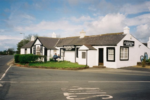 The Old Blacksmiths Shop, Gretna Green. A view of the Old Blacksmiths Shop, at Springfield, Gretna Green.